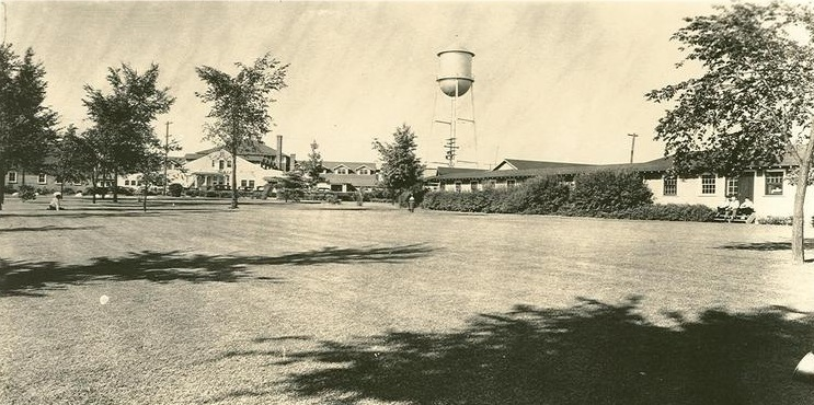 American Legion Hospital Battle Creek aka Roosevelt Community House